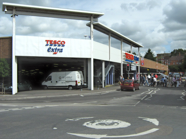 Tesco's car park, Yeovil